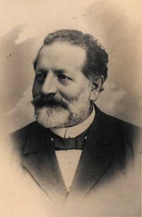 Swiss-born Danish chocolate manufacturer and Swiss consul Christoph Cloëtta (1835-1897), co-founder of Cloëtta